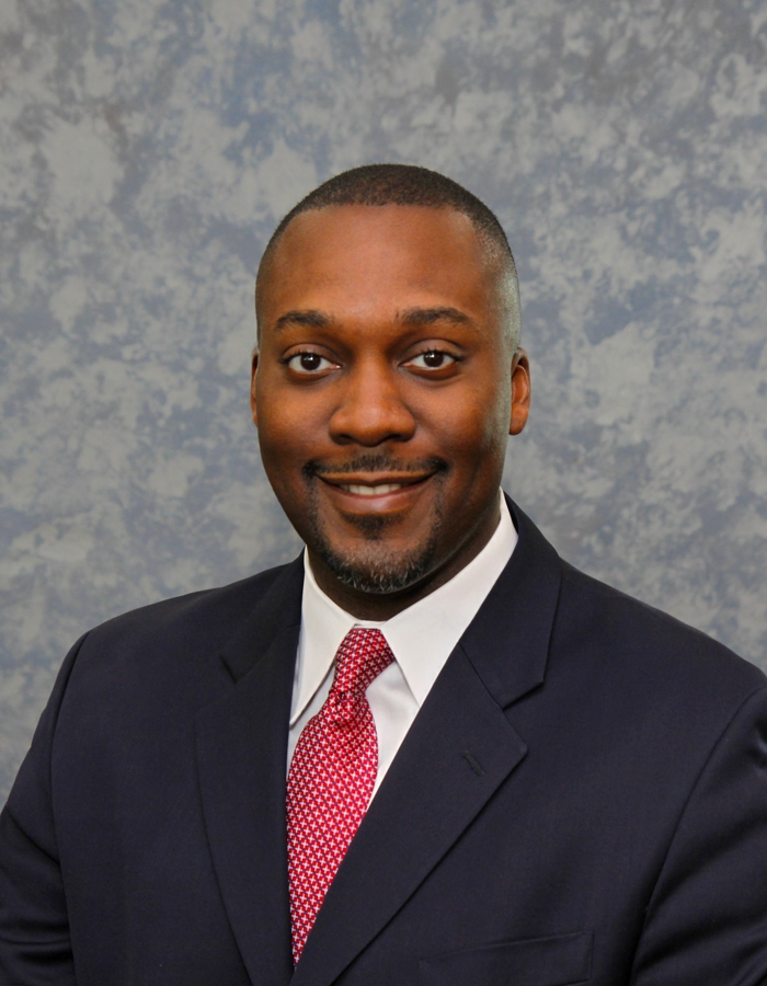 Howard County Councilman Calvin Ball